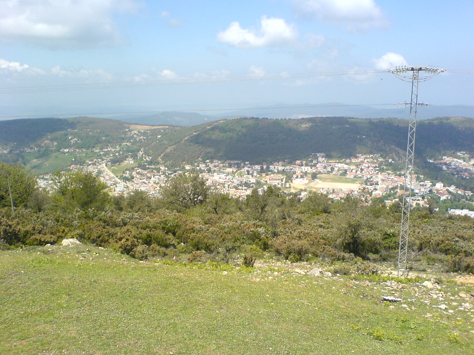 View of Ain Draham, Tunisia